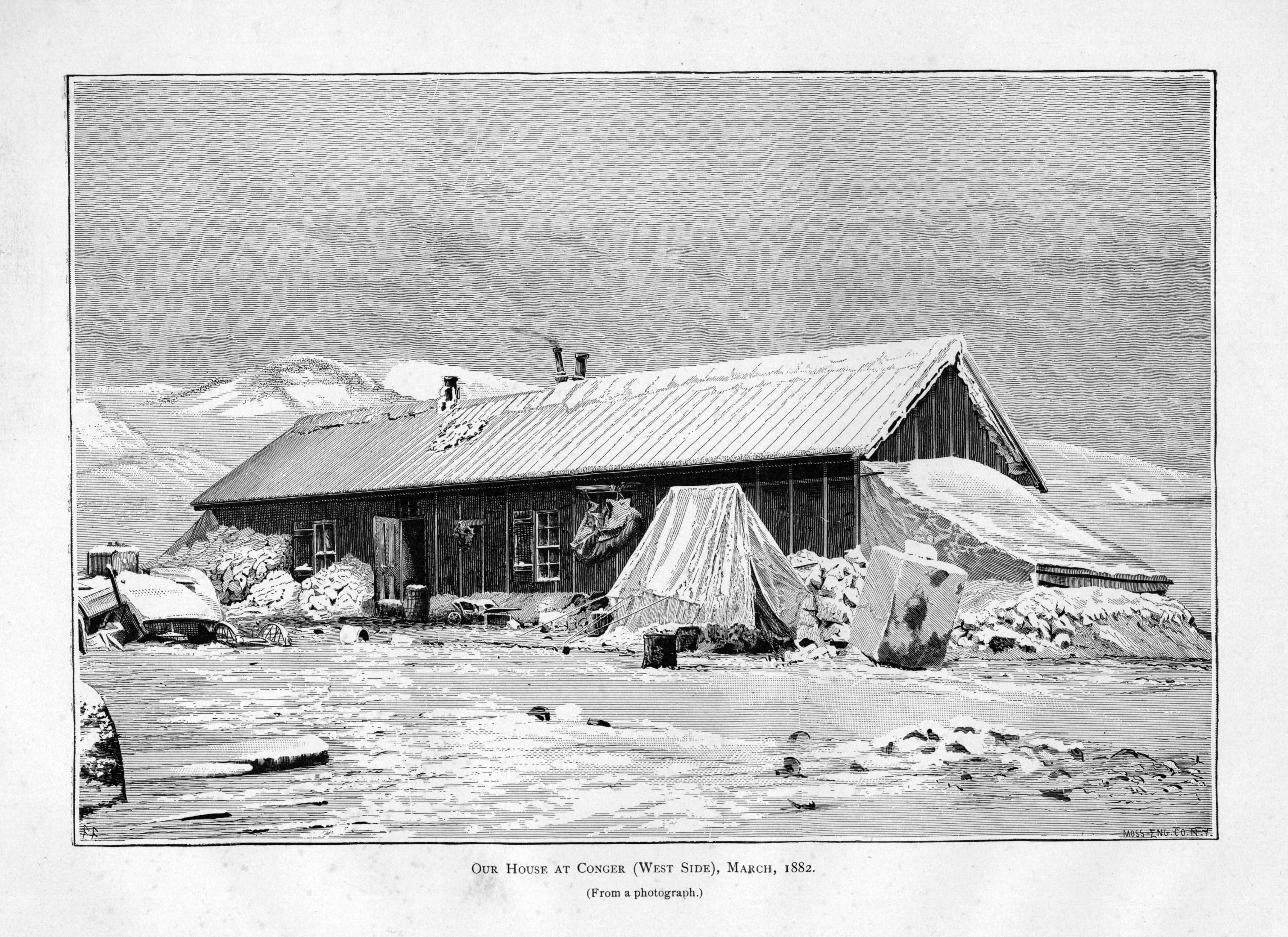 Plate from a publication of the first IPY (International Polar Year, 1882-1883)